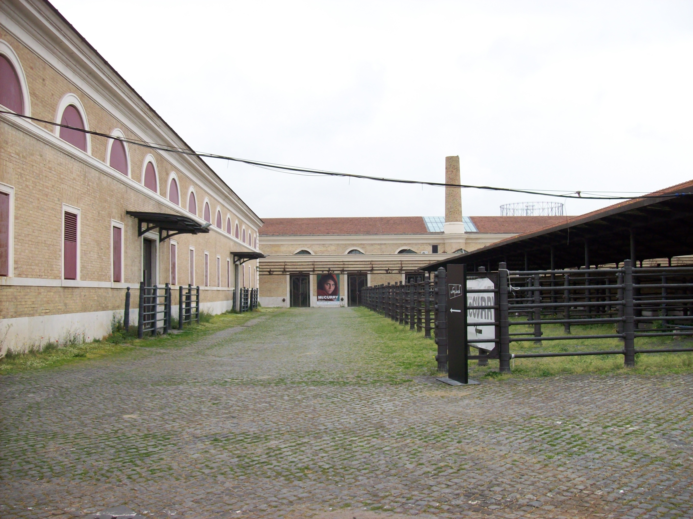 The former Testaccio Slaugherhouse, now Museum of Contemporary Art of Rome (MACRO) during an exposition of Steve McCurry's photographs